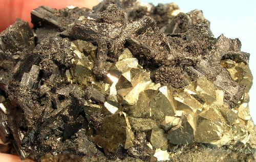 Enargite, Luzonite, Pyrite Locality: Pen-Shan Ore Body, Chinkuahshih Mine, Jui-Fang Town, Taipei County, Taiwan Province, Taiwan (Locality at ) Size: 5.5 x 5.3 x 4.1 cm. An exceptional specimen of Enargite altering to Luzonite. The black blades of Enargite, which can reach 1.1 cm in length, have excellent luster, and the striations on the faces add greatly to the aesthetics. The Luzonite is growing on the terminations of many of the crystals of Enargite. The Enargites surround a bed of beautiful lustrous Pyrites. Ex. Charlie Key.